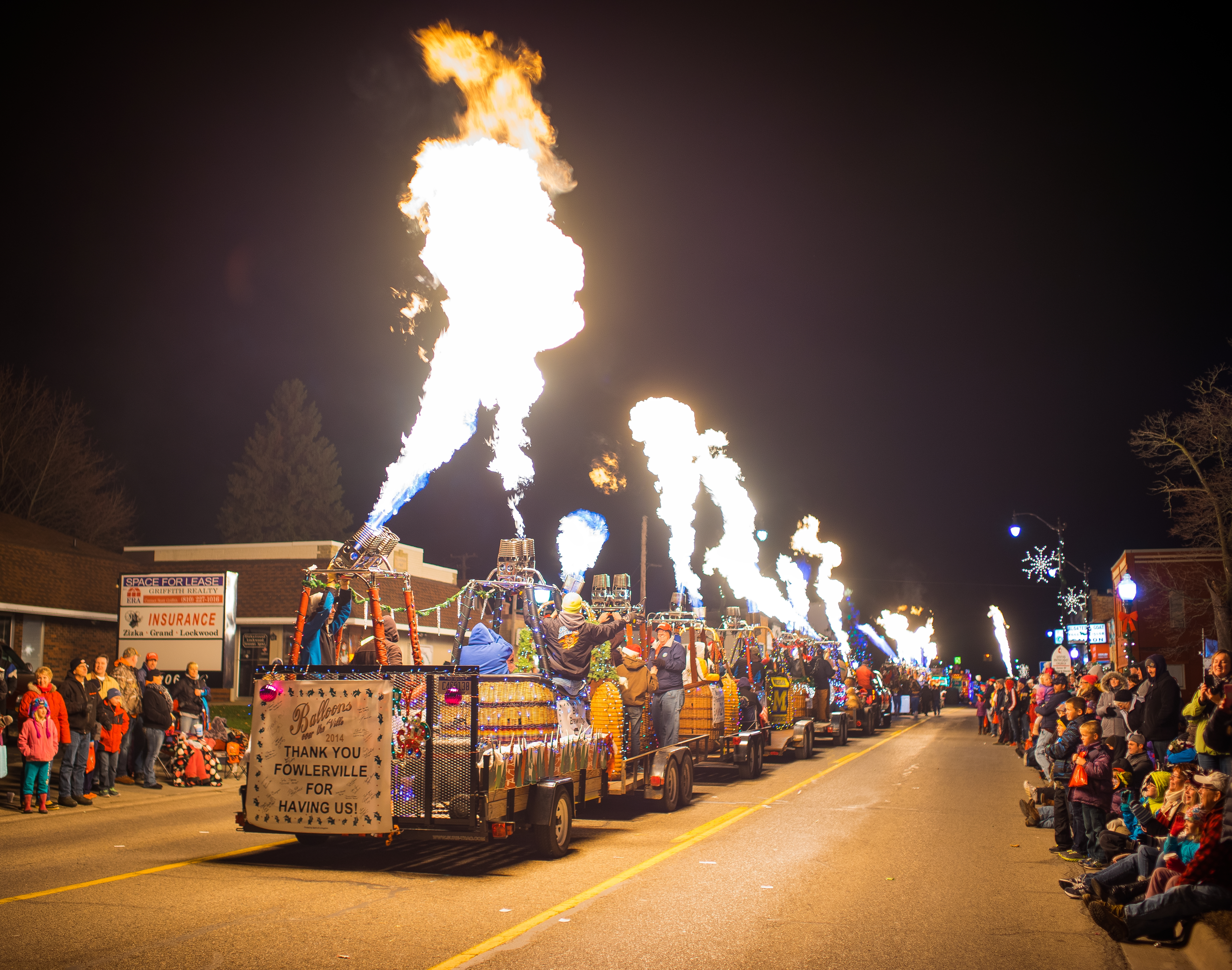 Fire Train by Joshua Young